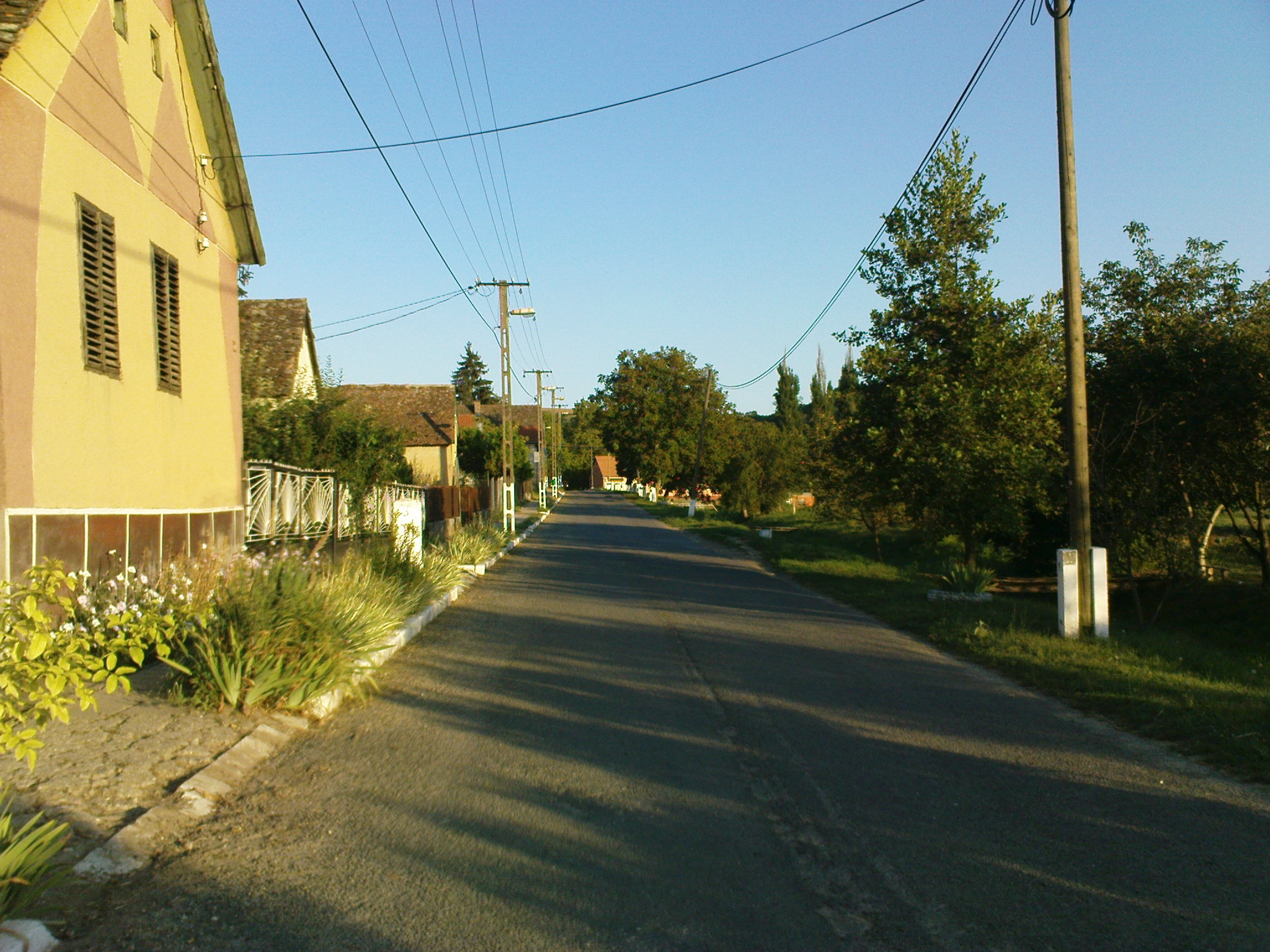 Streetview of the Village Ág in South-Transdanubia, Baranya, Hungary